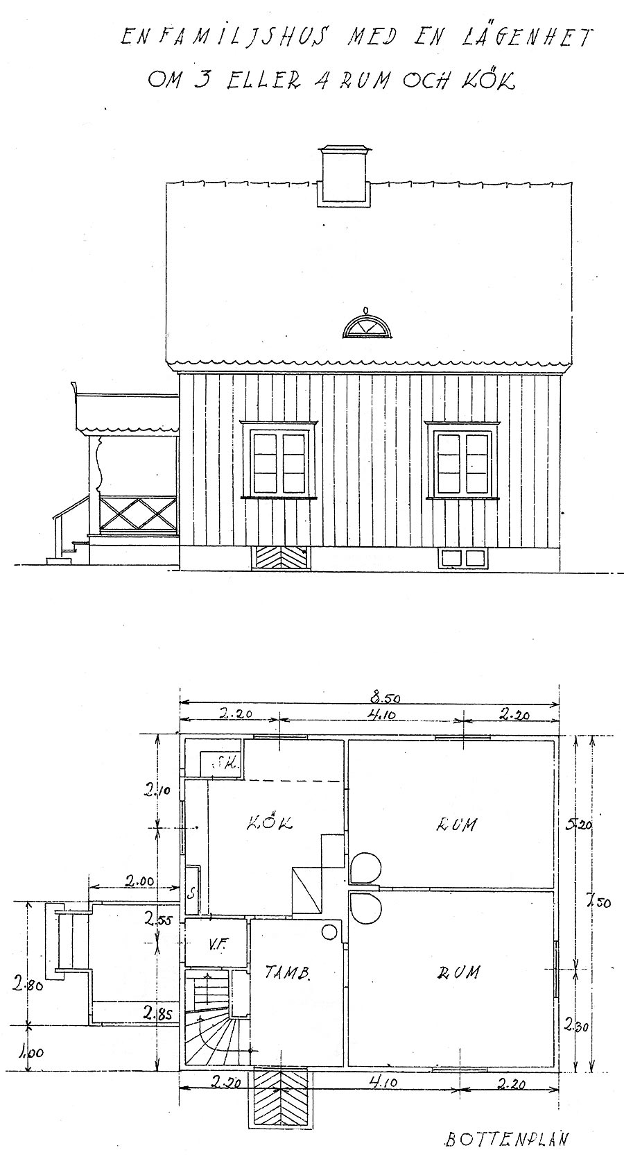 drawing of swedish villa, published by länsmuseum.